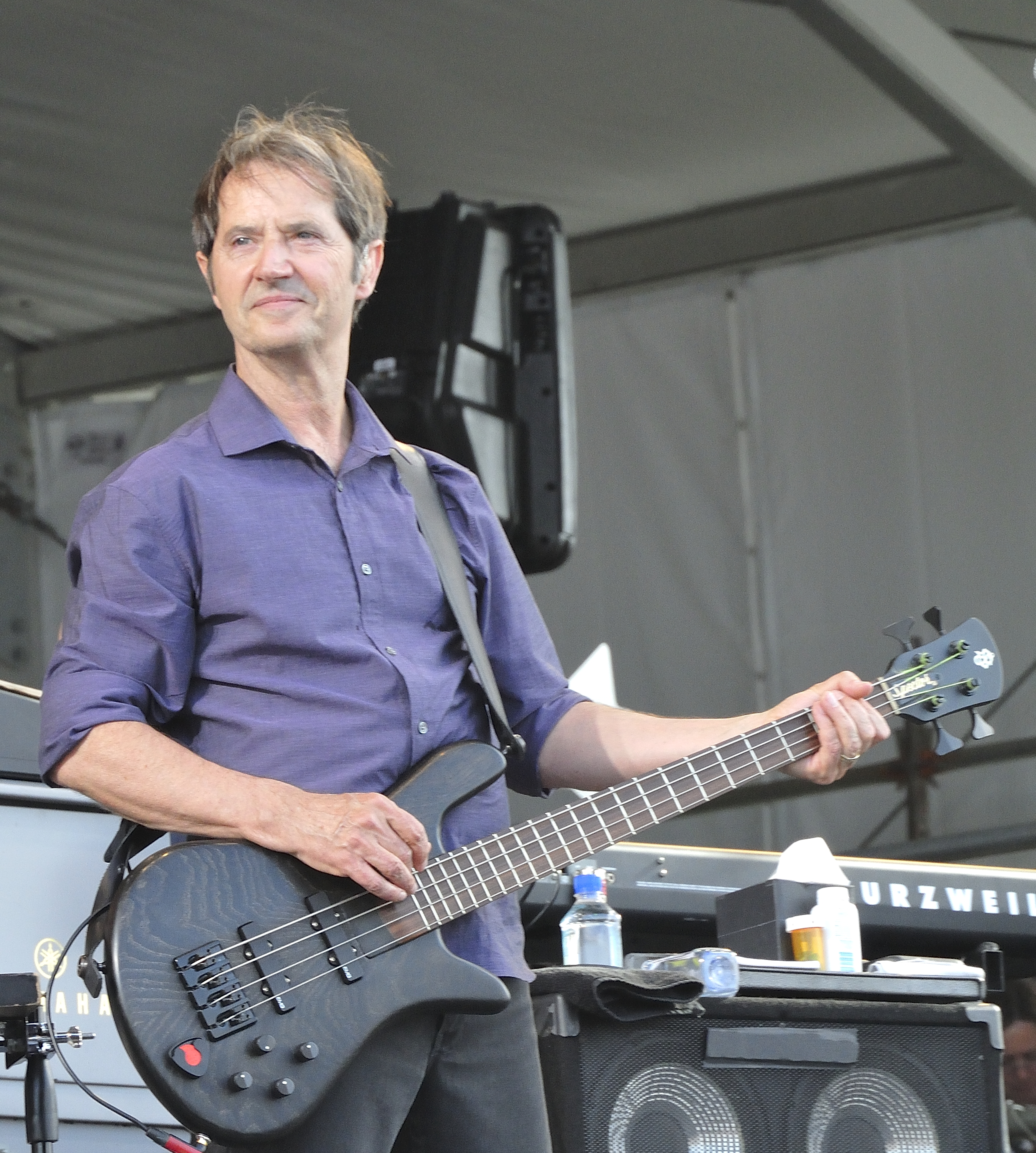 Bruce Springsteen & The E Street Band - New Orleans Jazz & Heritage Festival 2012